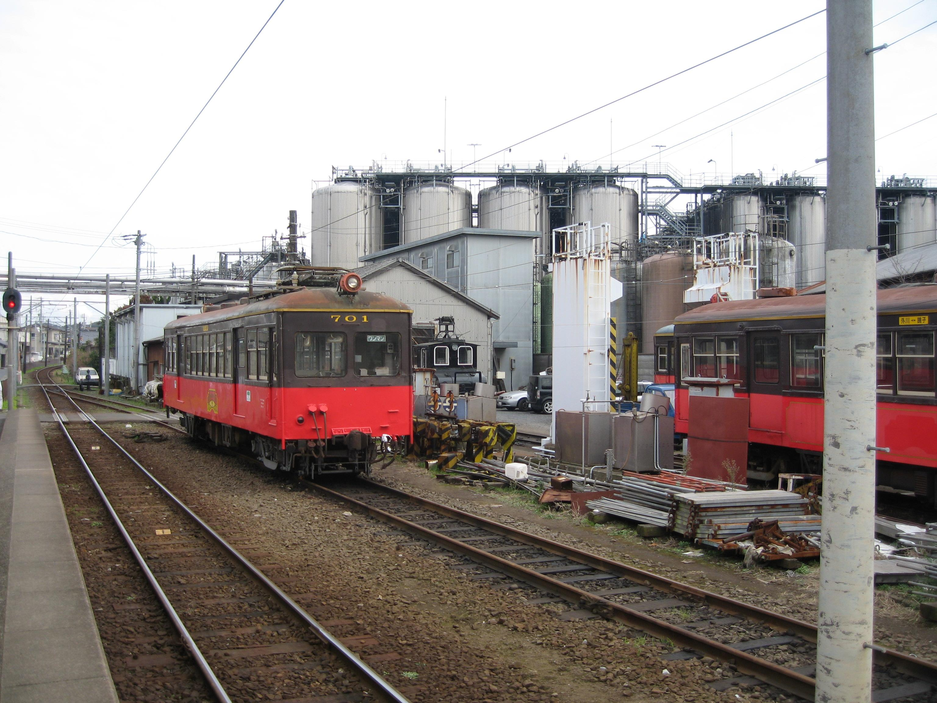 Nakanocho Station and the adjacent depot on the Choshi Electric Railway in Choshi, Chiba, Japan